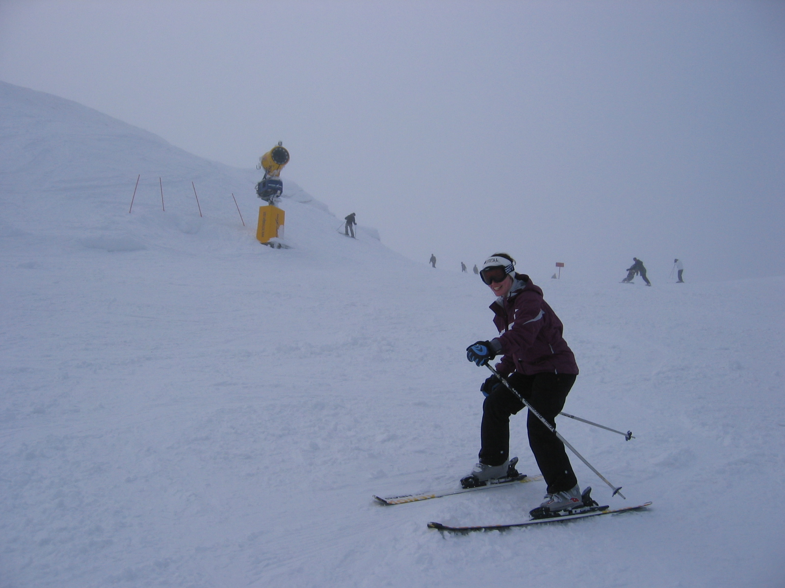 "Sara cruising down the mountain on her first blue run from the top of Coronet Peak." Skier skiing down Coronet Peak.